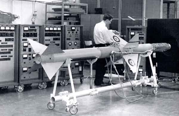 Canadair, today part of Bombardier, was contracted to produce versions of the Sparrow II, the self-contained active-seeking version of the Sparrow missile. They built a total of seven airframes, including five rebuilt using Douglas airframes and two from scratch, before the program was shut down with the cancellation of the Avro Arrow program.